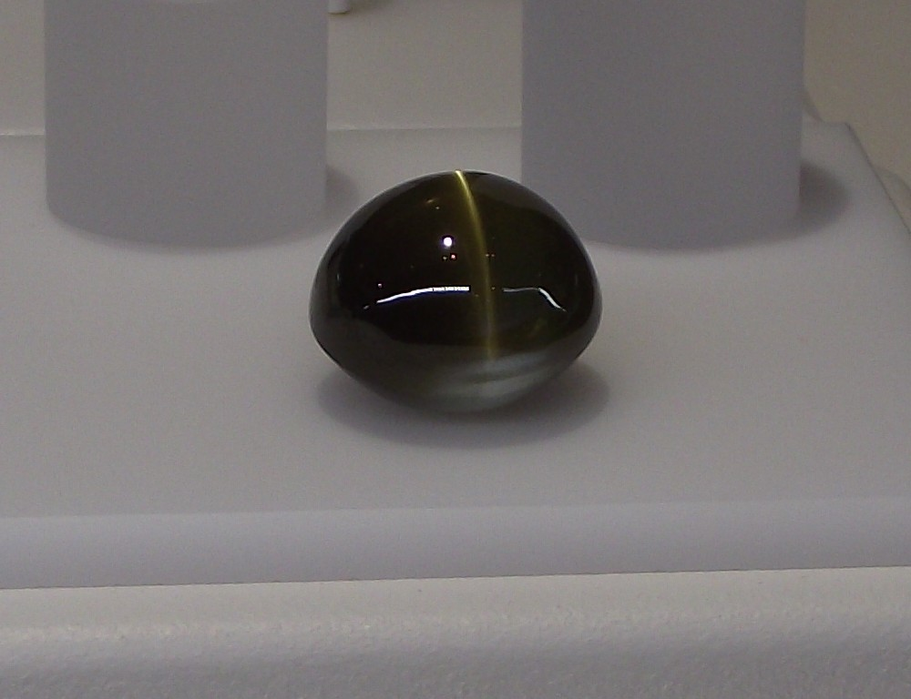 A cat's eye chrysoberyl. Photographed at the San Diego Natural History Museum, California, USA.